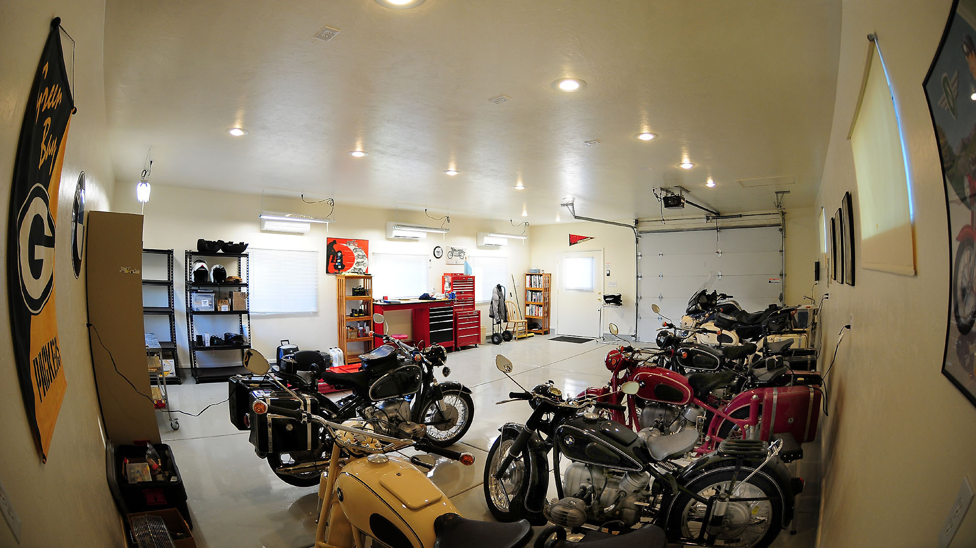 A "man cave" housing vintage motorcycles.